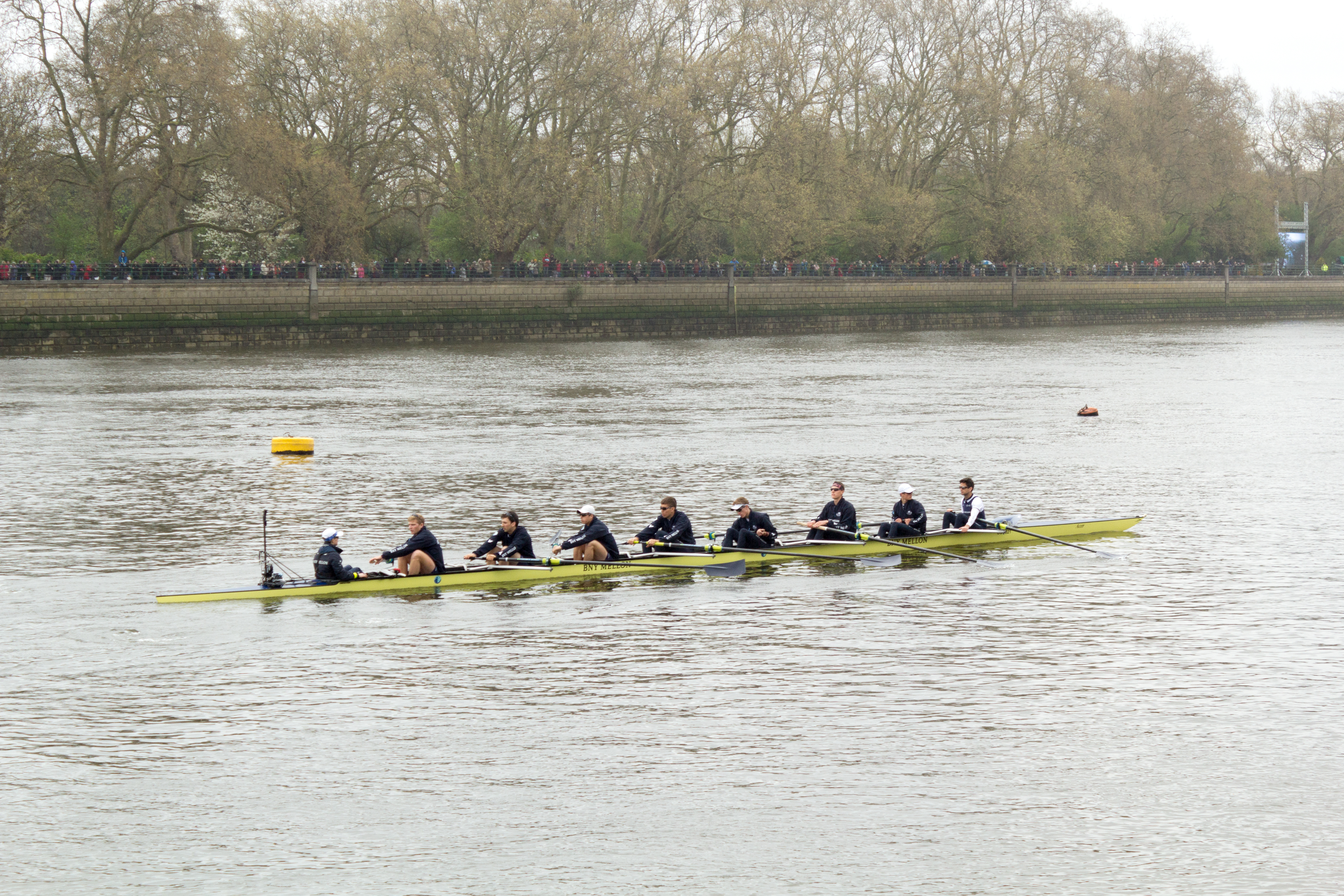 The BNY Mellon Boat Race 2014 - Main Race - Oxford.